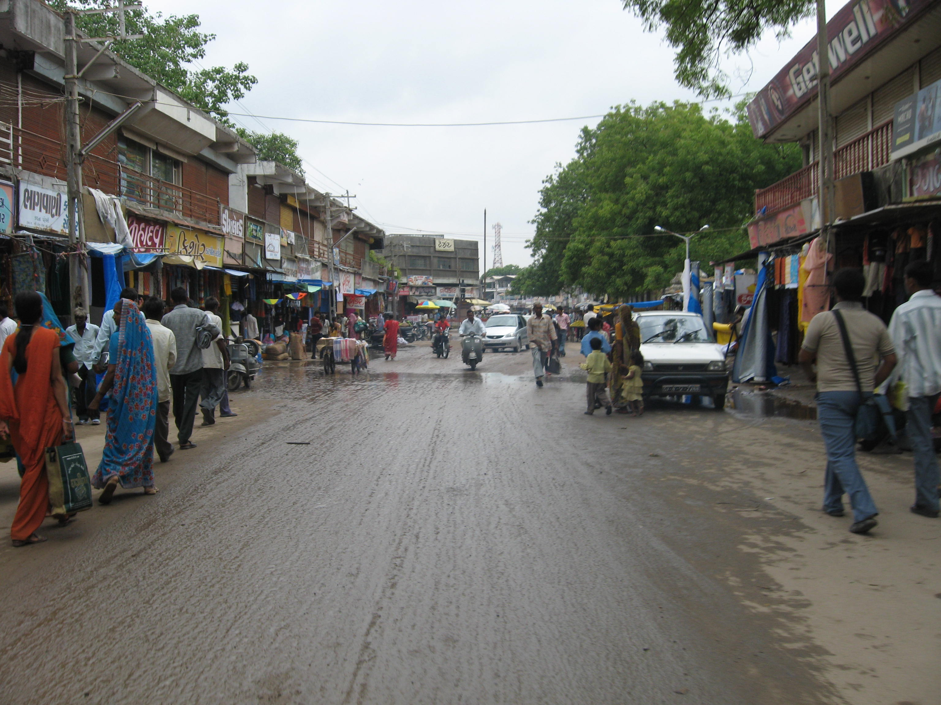 Shimlagate area of palanpur on a busy day.